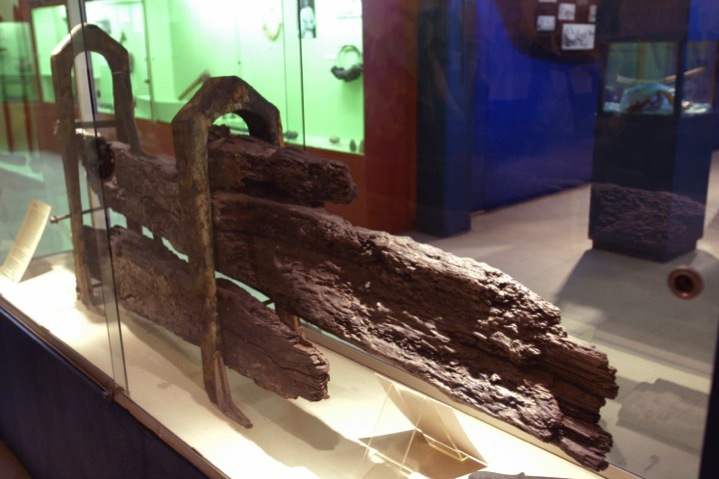 THIS IS THE MOST HISTORIC AND FAMOUS EXHIBIT IN THE FIJI MUSEUM. THE BOUNTY WAS BURNED IN BOUNTY BAY, PITCAIRN ISLAND SO THE MUTINEERS COULD NOT CONTEMPLATE RETURNING TO CIVILIZATION